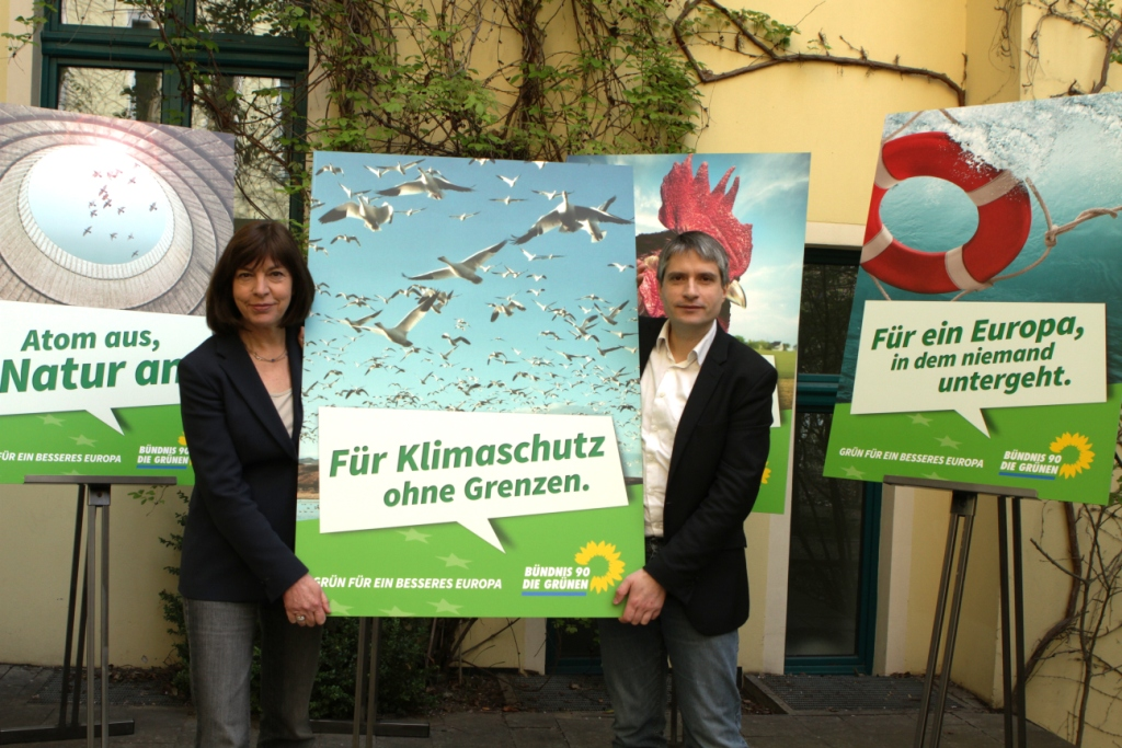 Rebecca Harms and Sven Giegold presenting the European Elections Campaign 2014 for the German Greens